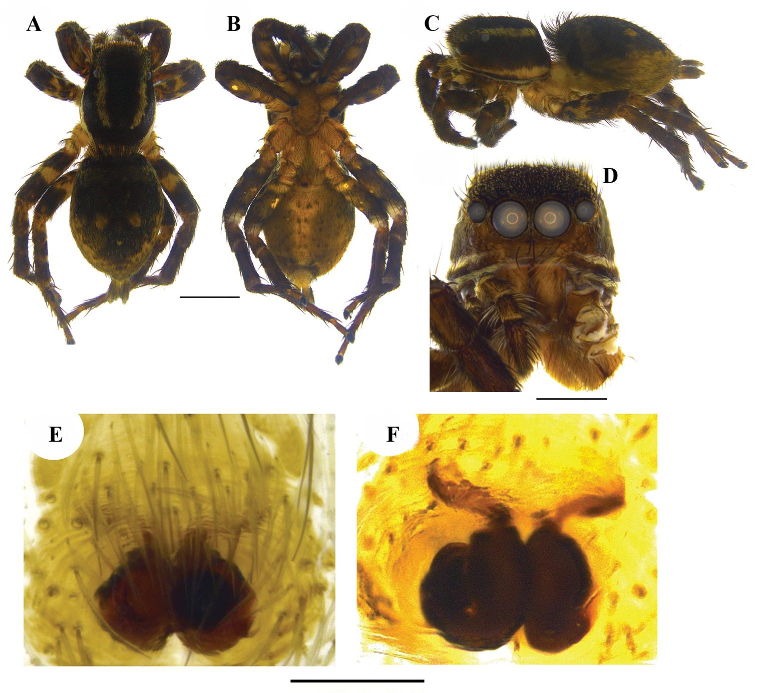 Stenaelurillus albus sp. n. A Female habitus, dorsal view B Same, ventral view C Same, retrolateral view D Same, frontal view E Epigyne F Internal duct system. Scale bars: A–C = 2 mm; D = 1 mm; E–F = 0.2 mm.